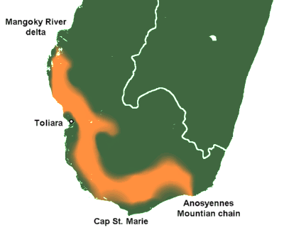 Extent of the Madagascar spiny thickets in orange. The distribution of the ecoregion is very generally represented based on a more detailed vegetation map in 'Mammals of Madagascar' by Nick Garbutt. JMK 21:18, 16 October 2006 (UTC)